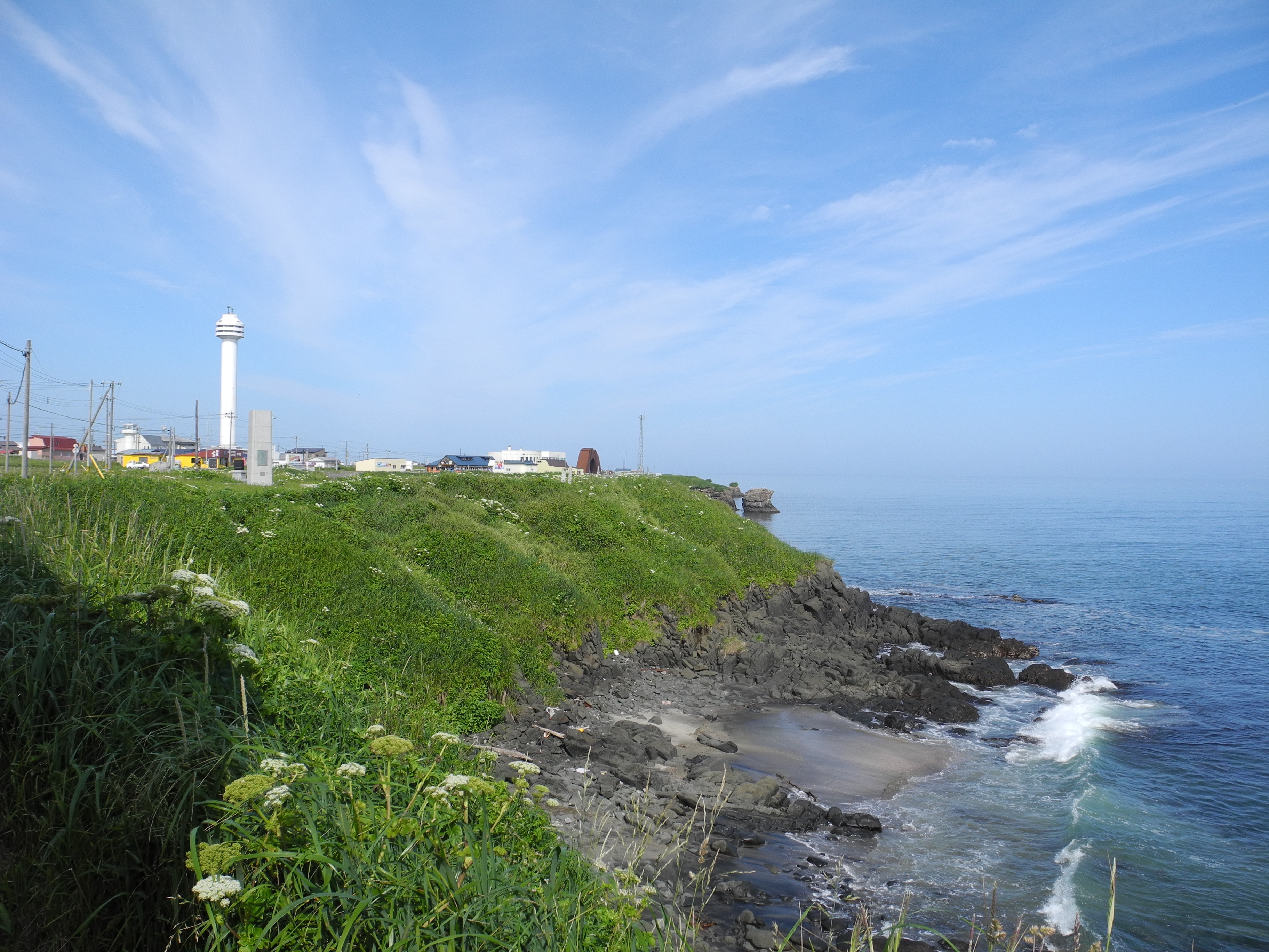 Cape Nosappu. Nemuro, Hokkaido, Japan.